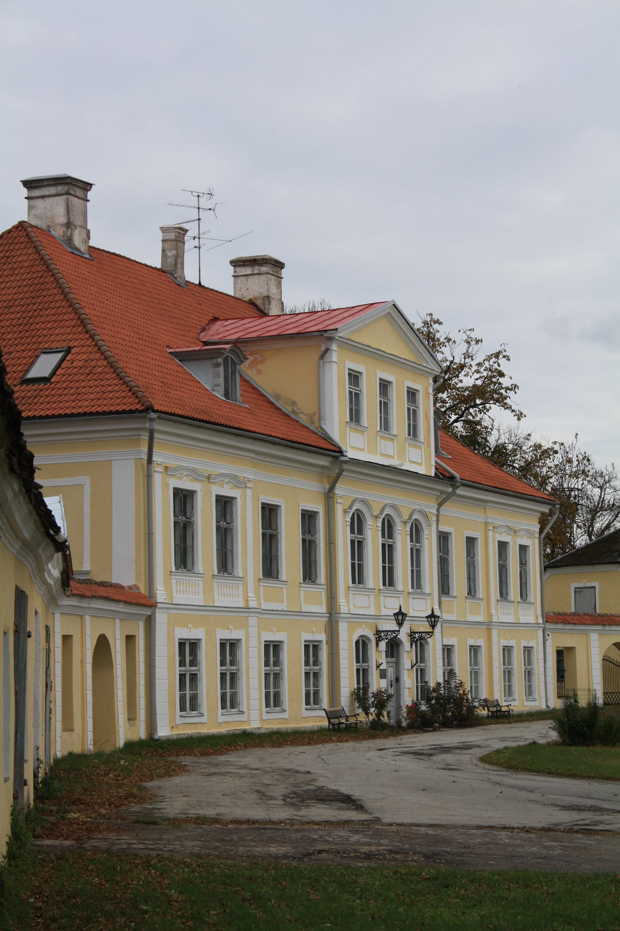 Saue manor house